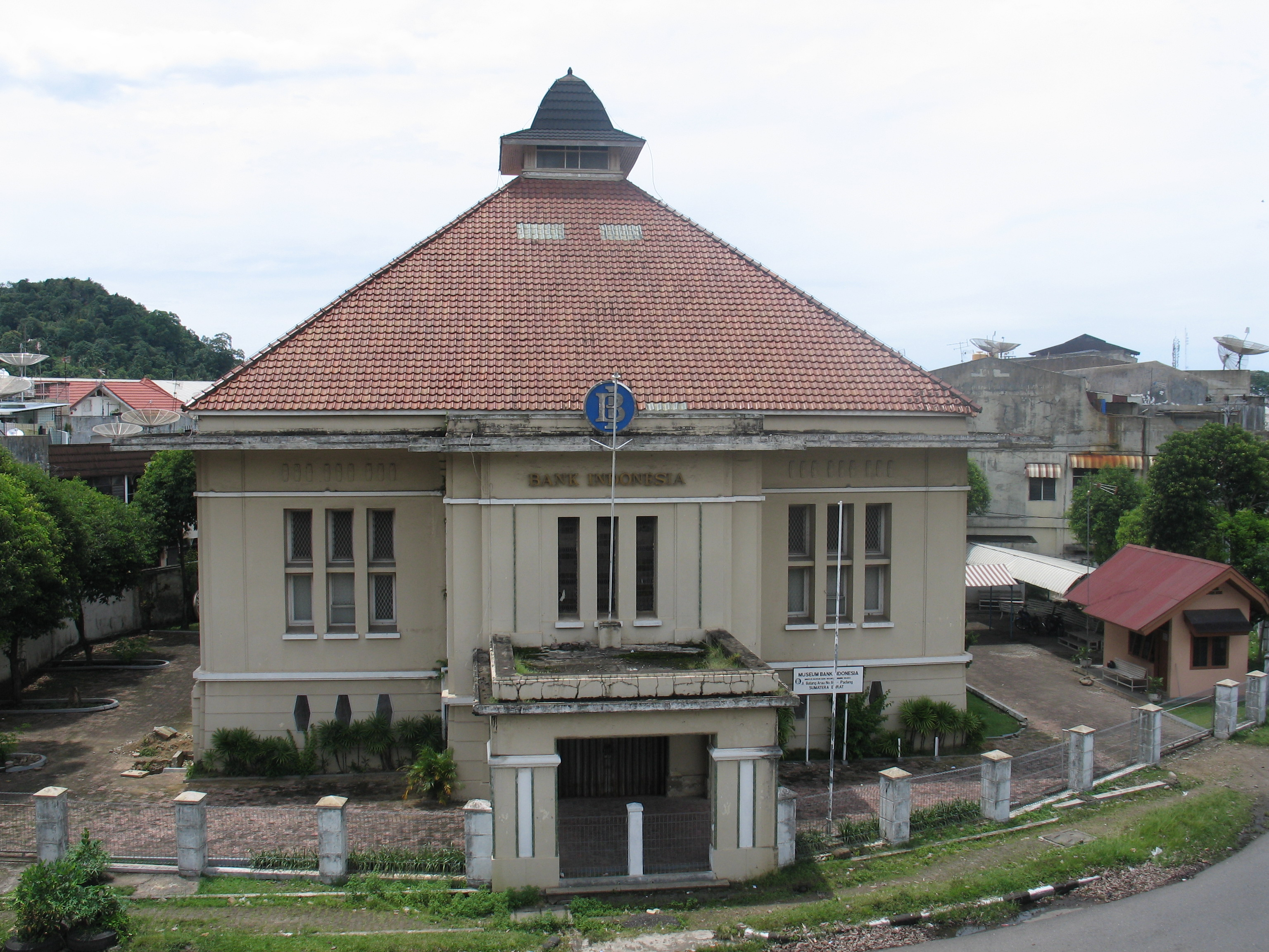 Old Bank Indonesia office near Muara Padang harbour